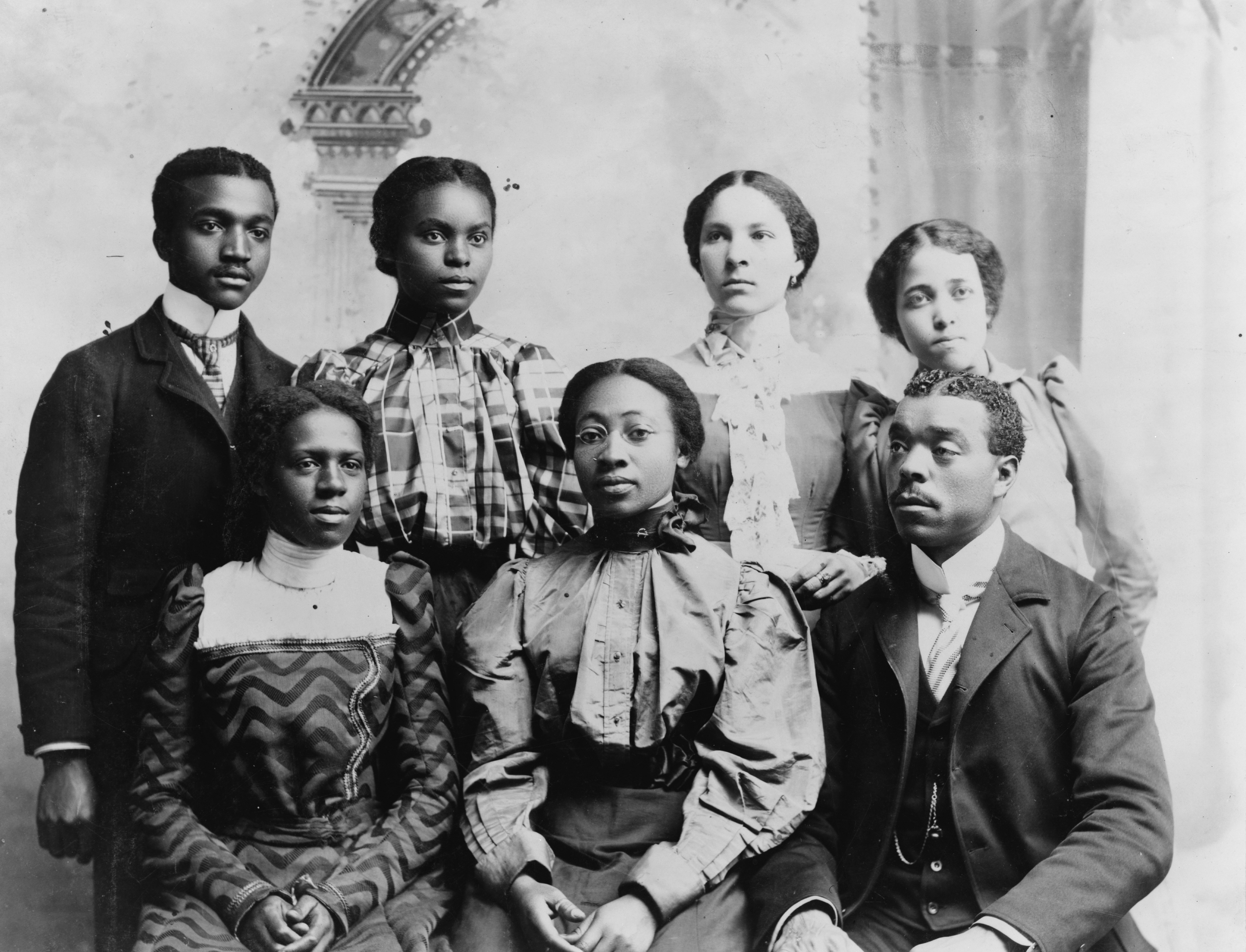 Title: Roger Williams University--Nashville, Tenn.--Normal class Abstract: Group portrait of African American students, facing front. Physical description: 1 photographic print.